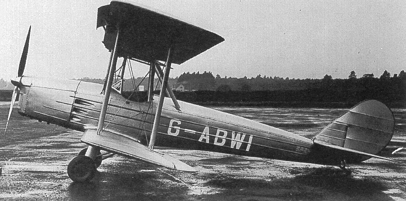 The first production Blackburn B-2